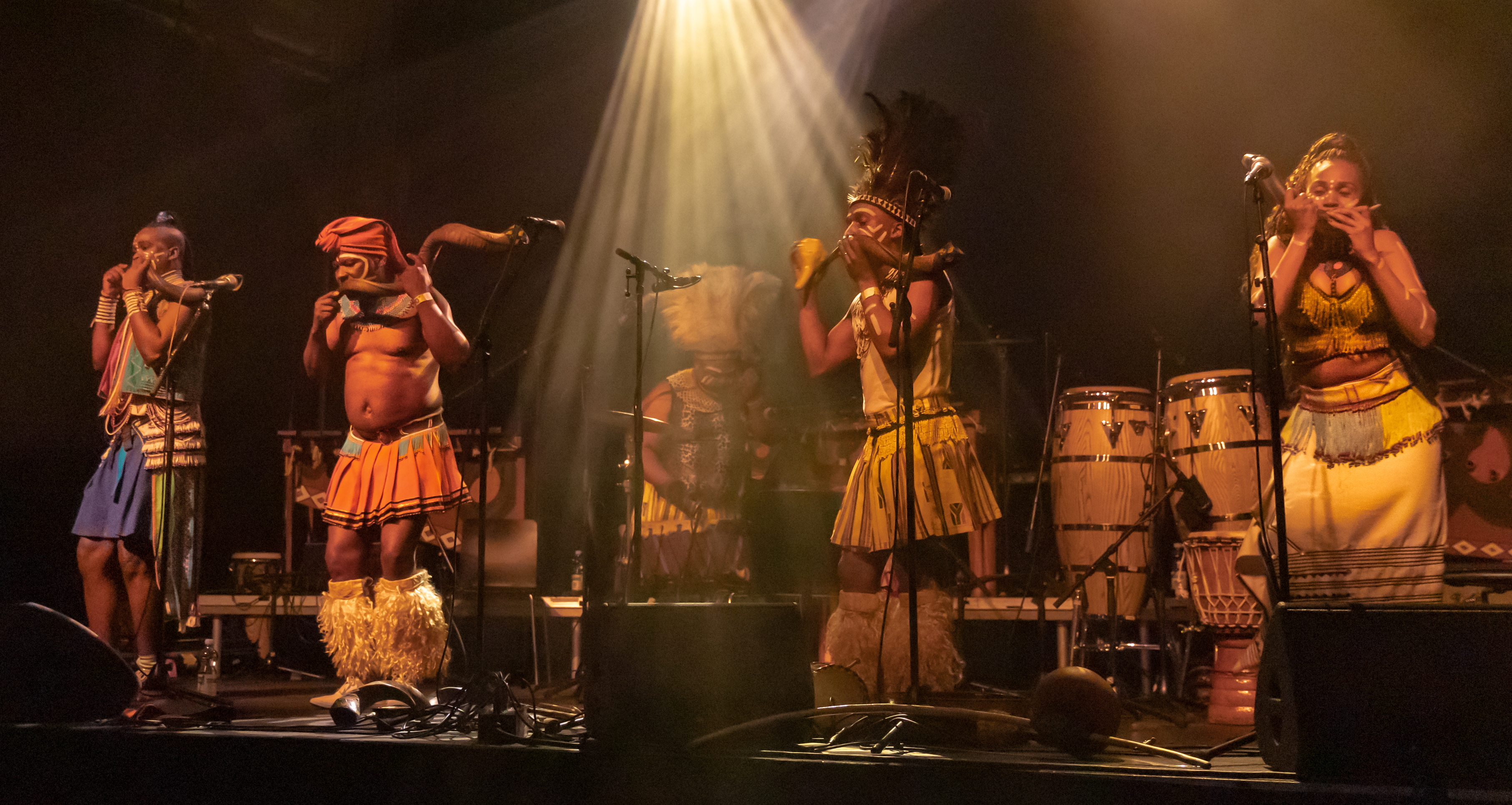 South Africa